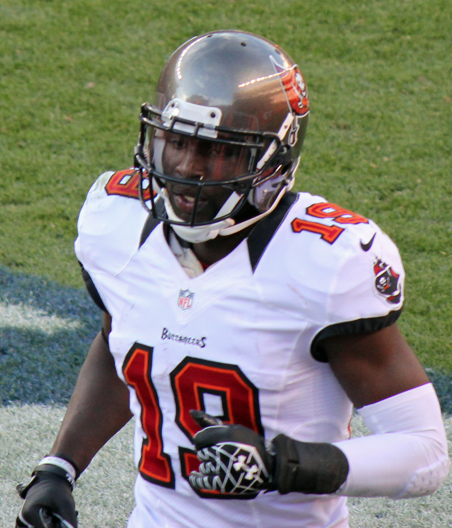 Mike Williams, a player on the National Football League.